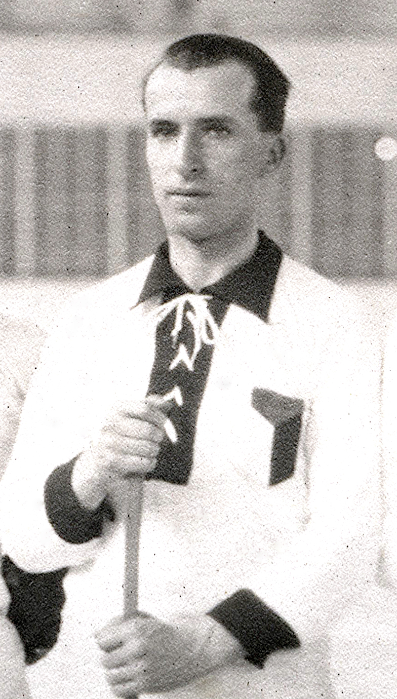 Jan Palouš; Czechoslovakian Olympic Hockey Team; Bronze Medal Winners; VII Olympiade, Antwerp 1920